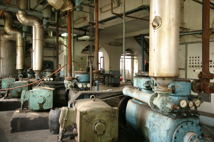 Brewery in Bečej Srpski (latinica): Pivara u Bečeju